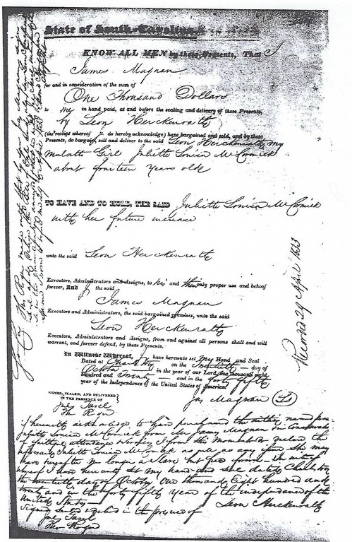 Bill of sale of Juliette Louisa McCormick to Leon Herckenrath, US 19th c.